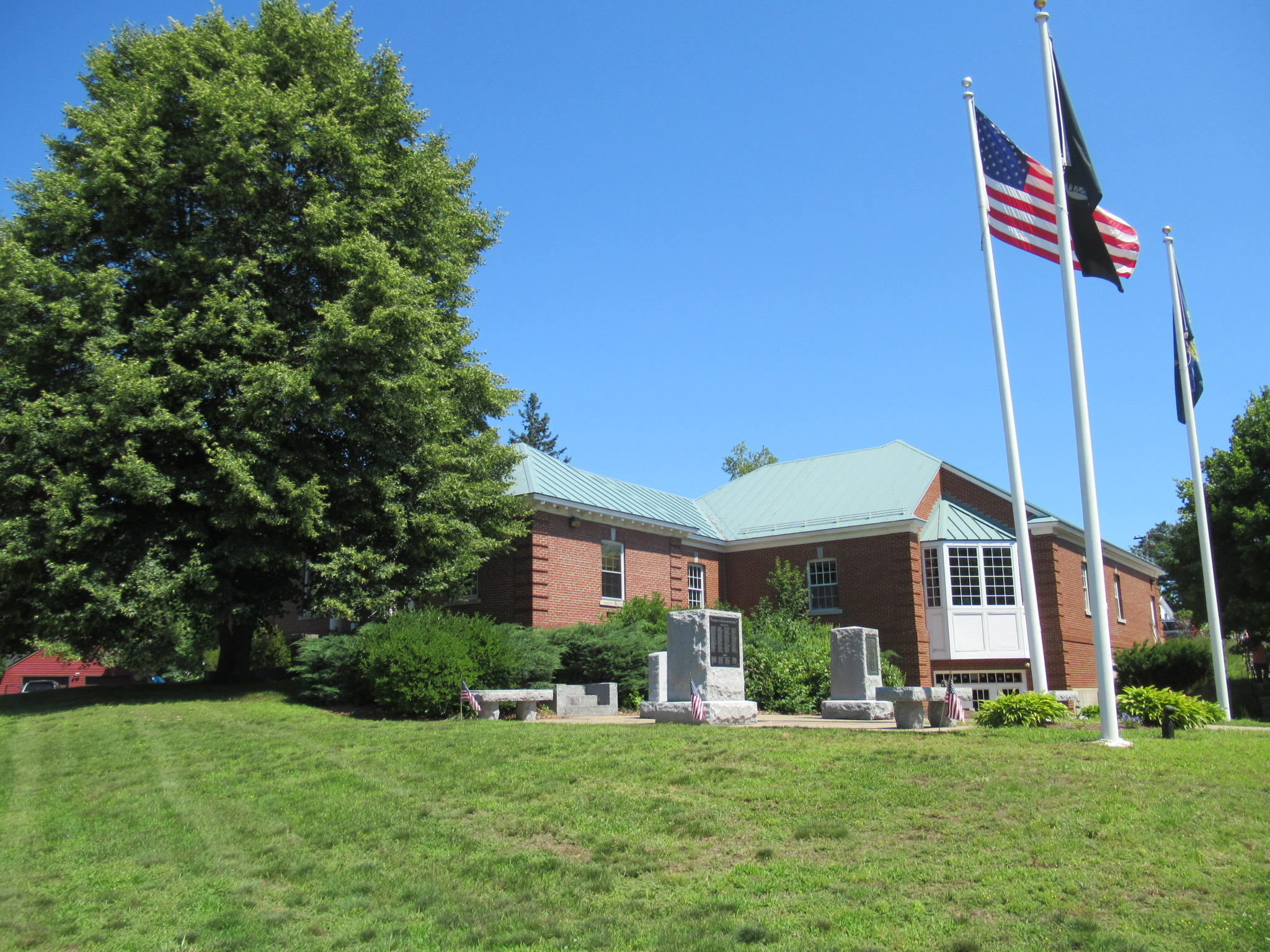 Maxfield Public Library in the center of Loudon, New Hampshire